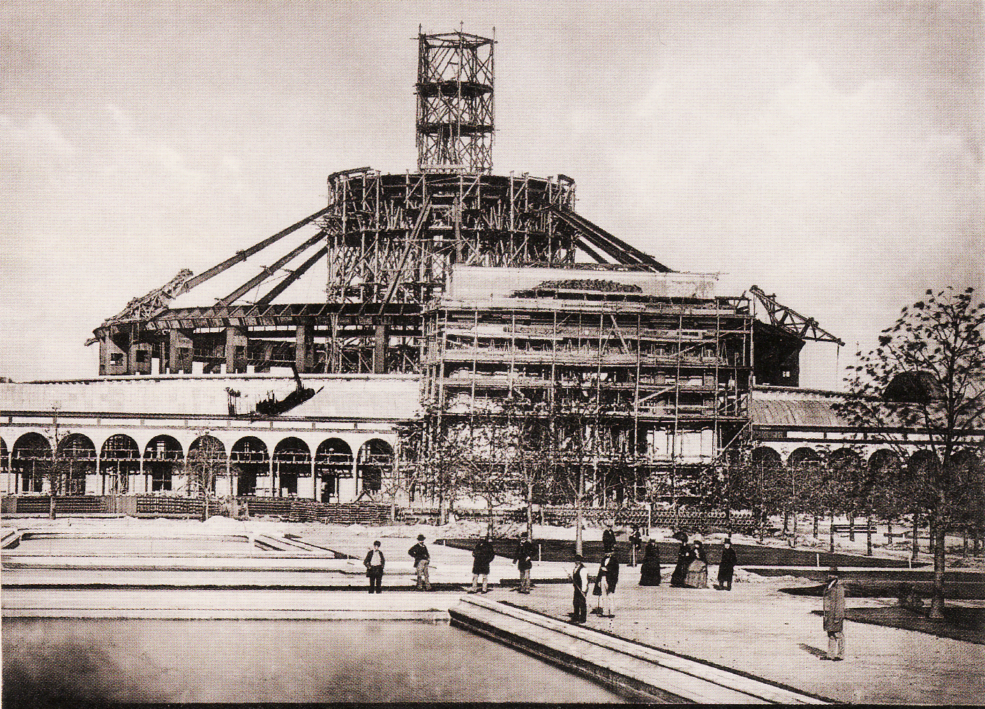 Rotunde in construction, Expo 1873